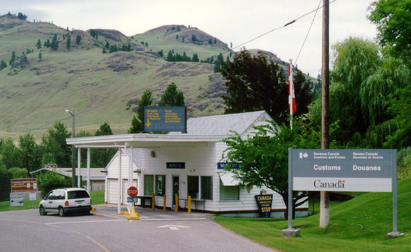 Midway, BC port of entry